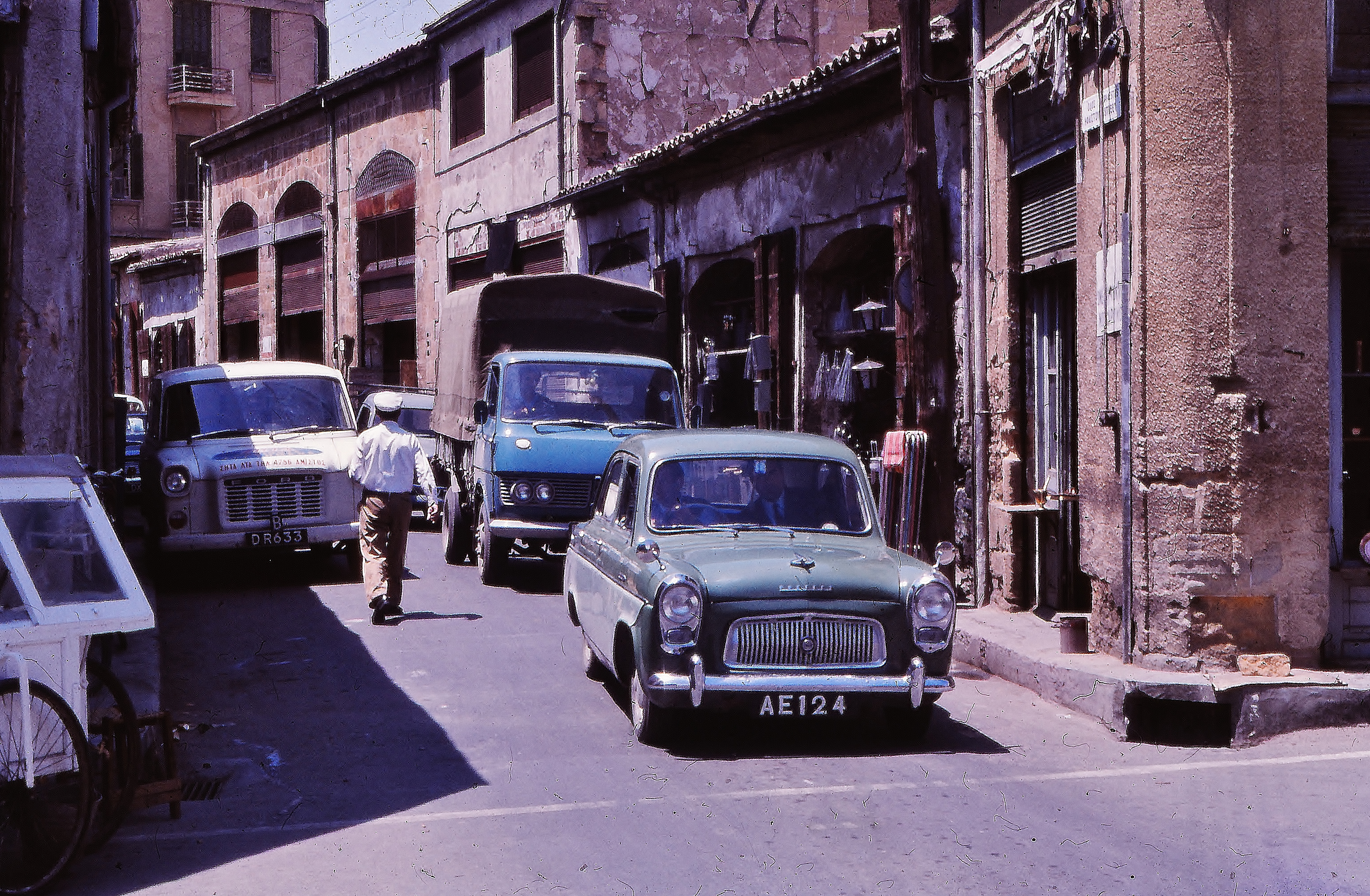 This looks like Paphos Street close to Ledra Street